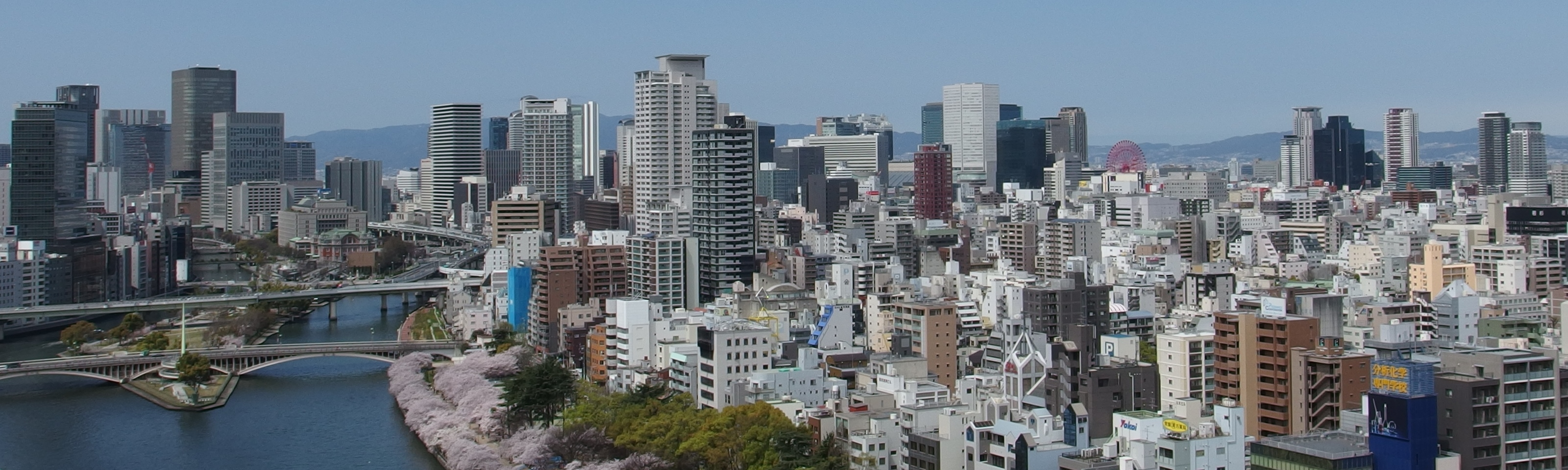 Nakanoshima, Umeda in Osaka, Osaka Prefecture, Japan